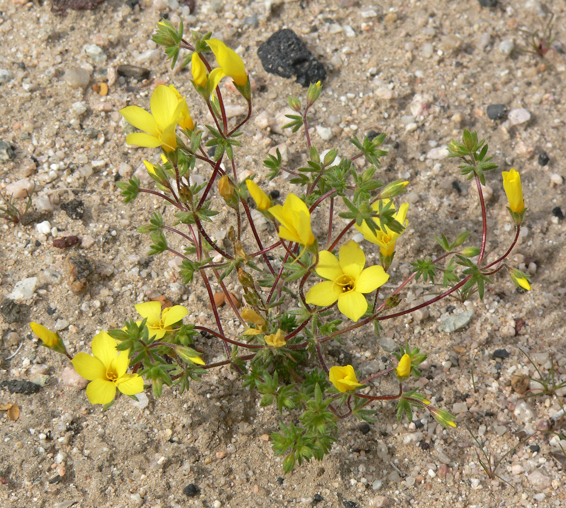 Linanthus aureus subsp. aureus off the Old Mojave Road southeast of Little Cowhole Mountain, Mojave National Preserve, California